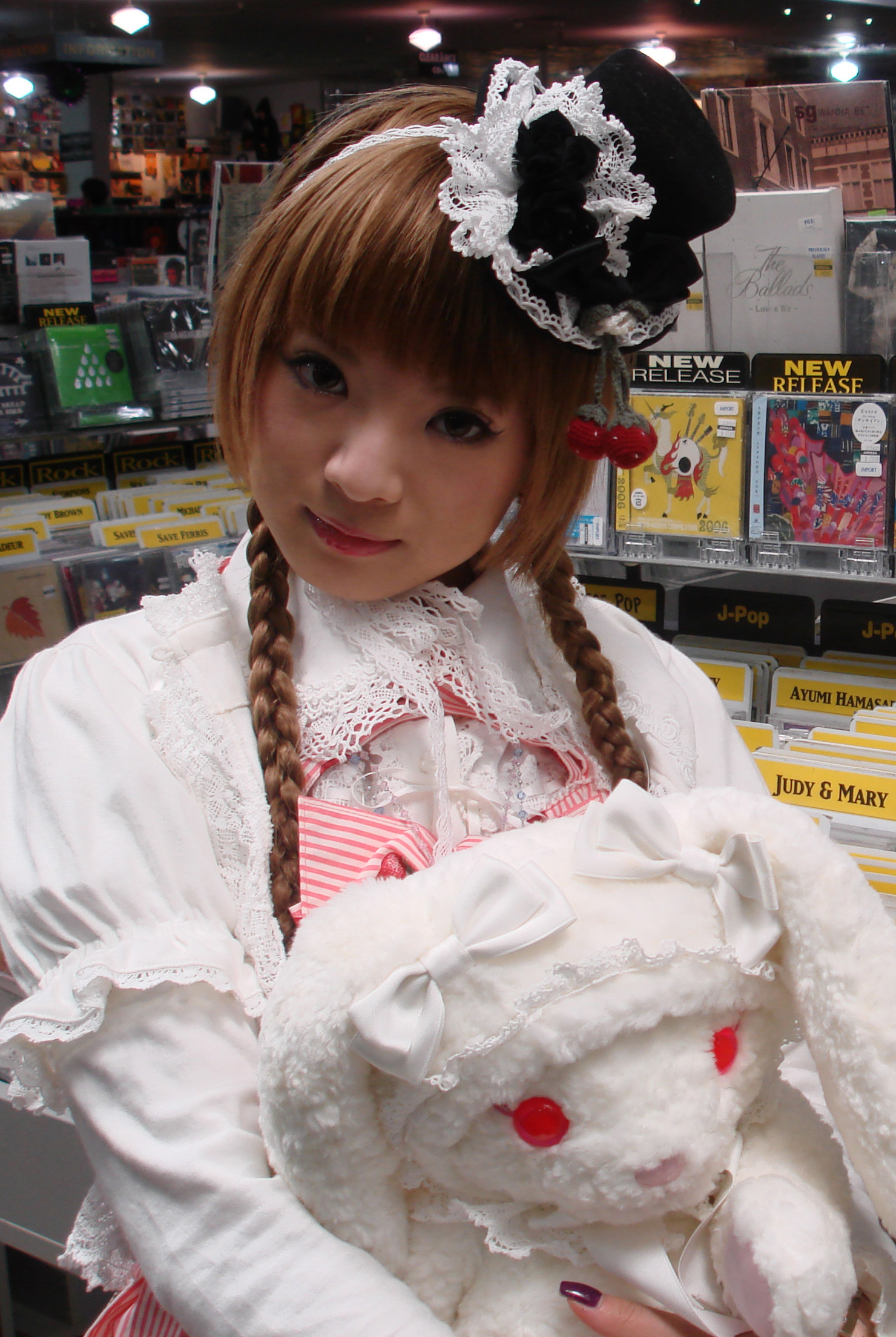 Nana Kitade at Virgin Megastore, San Francisco. Cropped from original Flikr image for better framing.